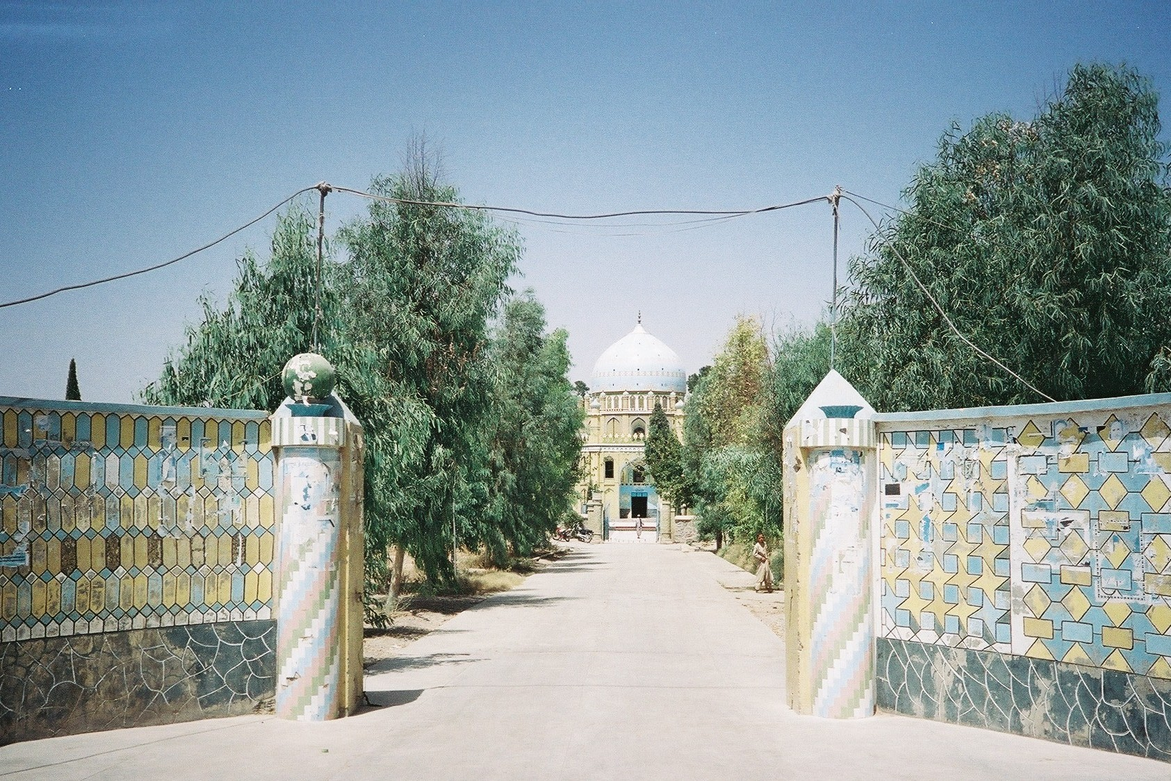 Mosque in Kandahar, Afghanistan